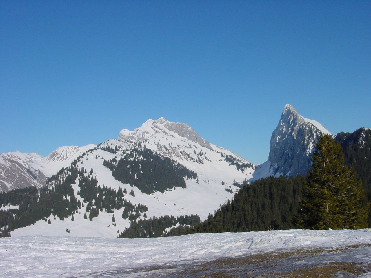 Les Cornettes de Bise (left, 2432 m) is the highest summit in French Chablais. To the right is Mont Chauffé, remarkable for its vertical cliff.